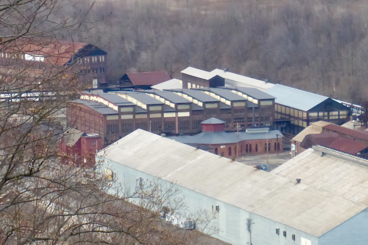 View of Cambria Iron Company from Westmont, Pennsylvania. Mill shipping building in foreground. Blacksmith shop (octagon roof) and machine shop (raised roof) in the center.